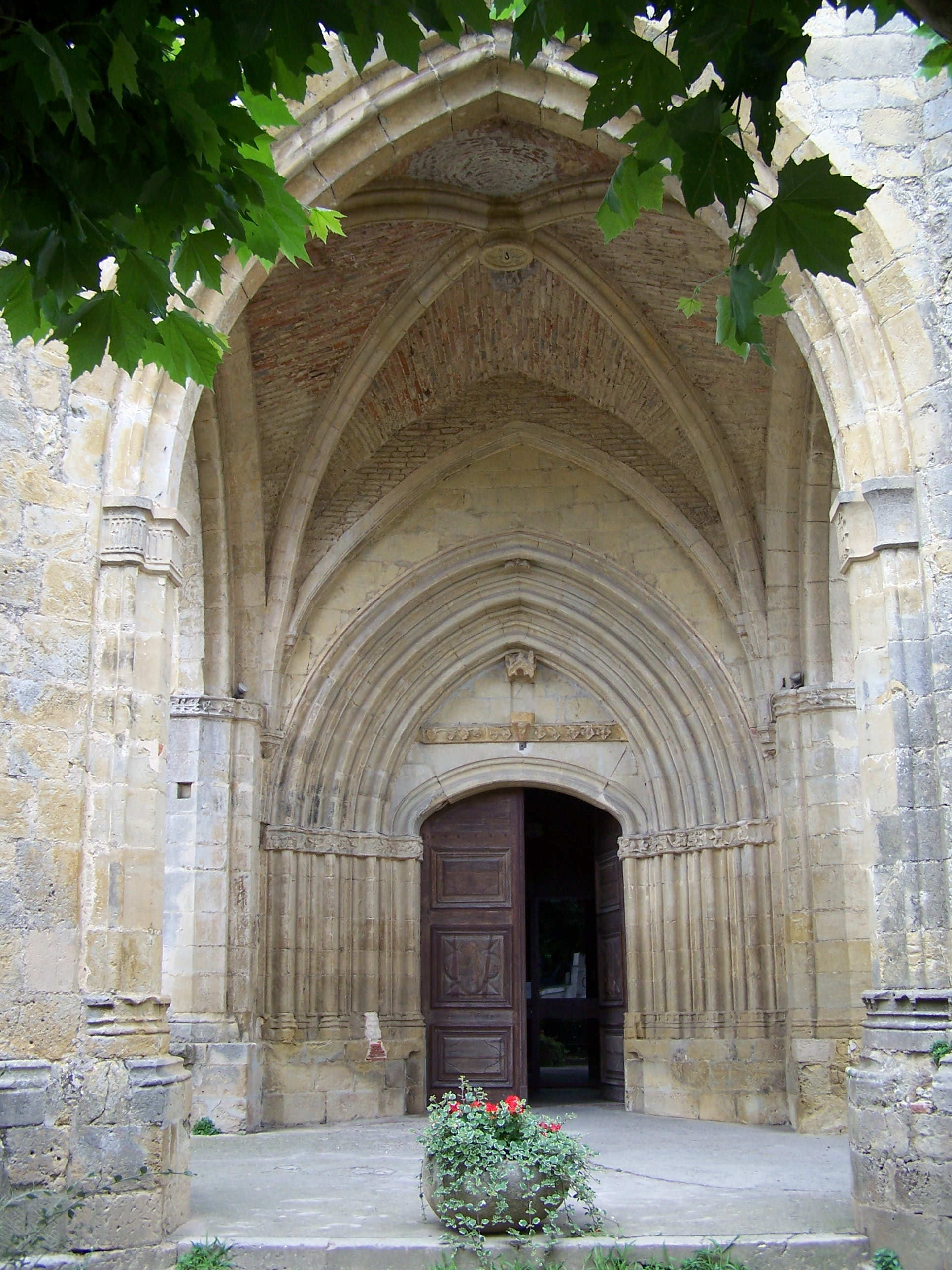 Church of Geaune (Landes, France)